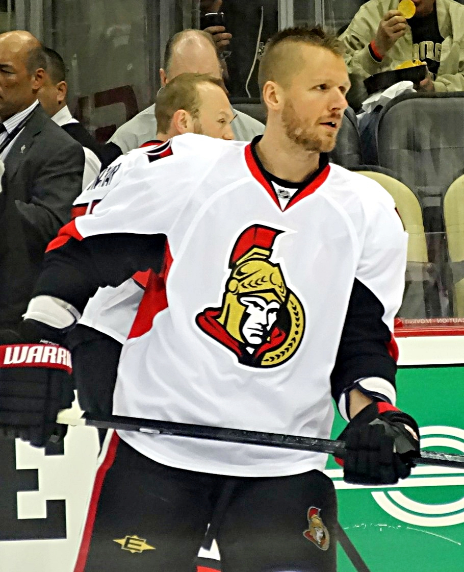 Ottawa Senators defenseman Marc Methot during game two of their second round series against the Pittsburgh Penguins, May 17, 2013 at Consol Energy Center in Pittsburgh, PA.